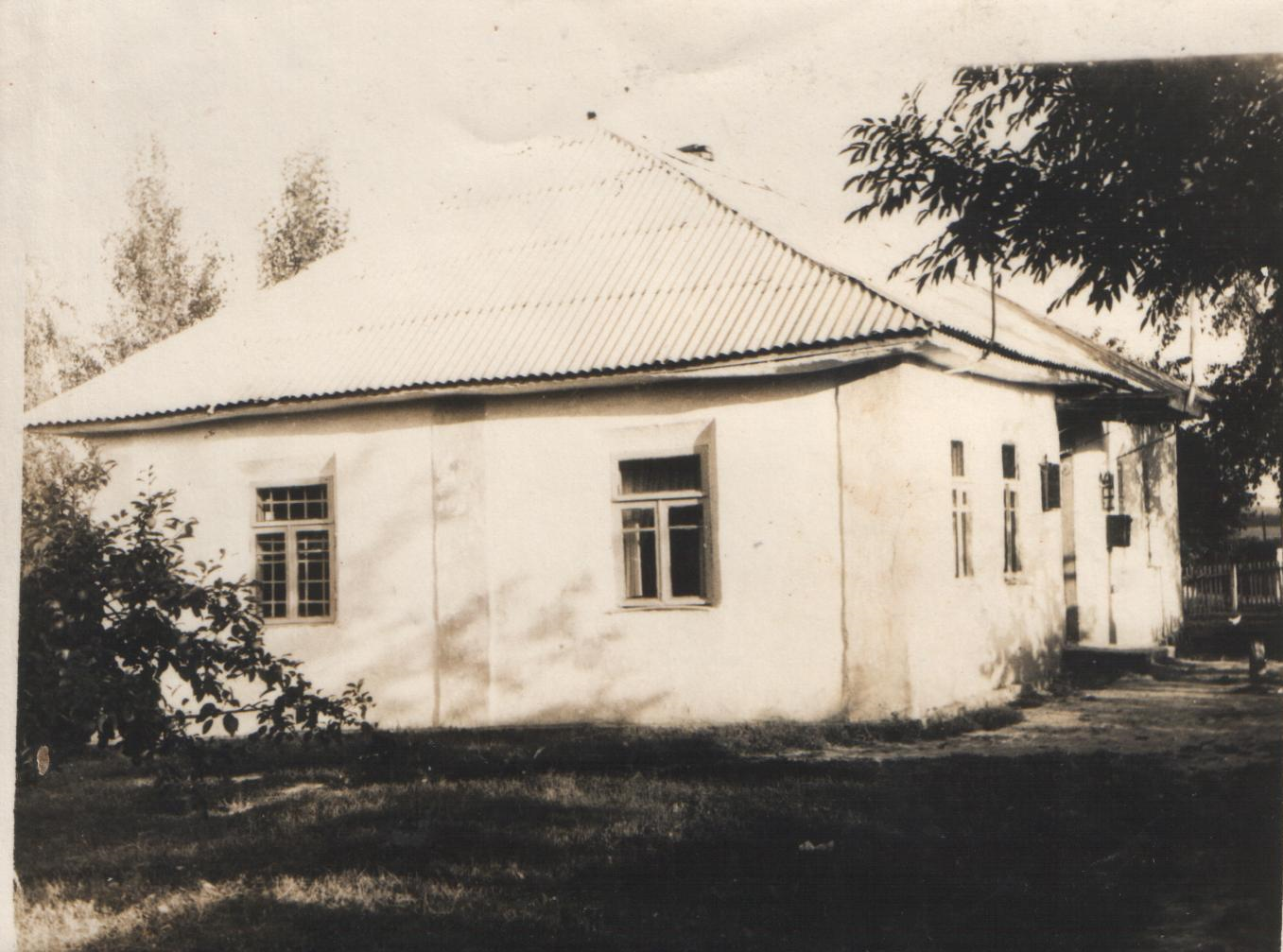 Приміщення сільської ради, пошти та швейної майстерні,. (початок 70-х років)